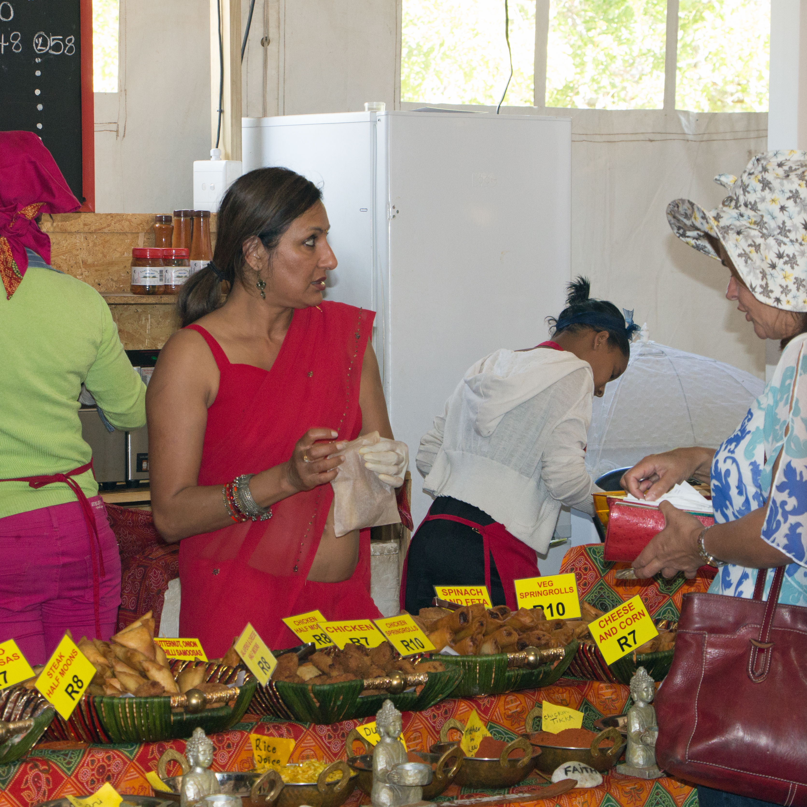 Saville's Eastern Delights stall at Root44 Market, Stellenbosch, South Africa